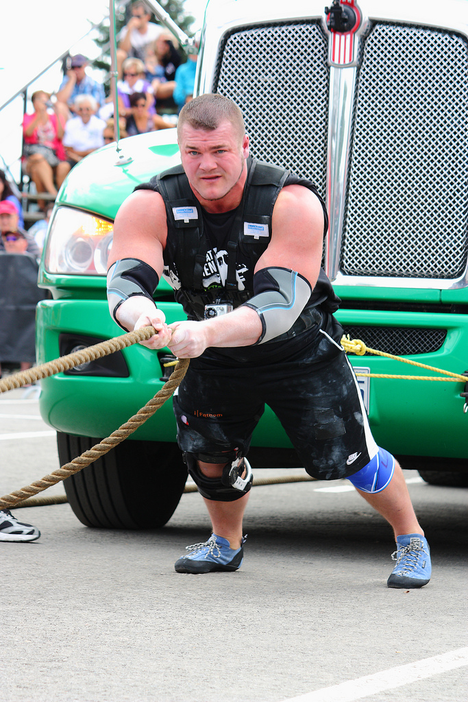 Photo of Luke Skaarup